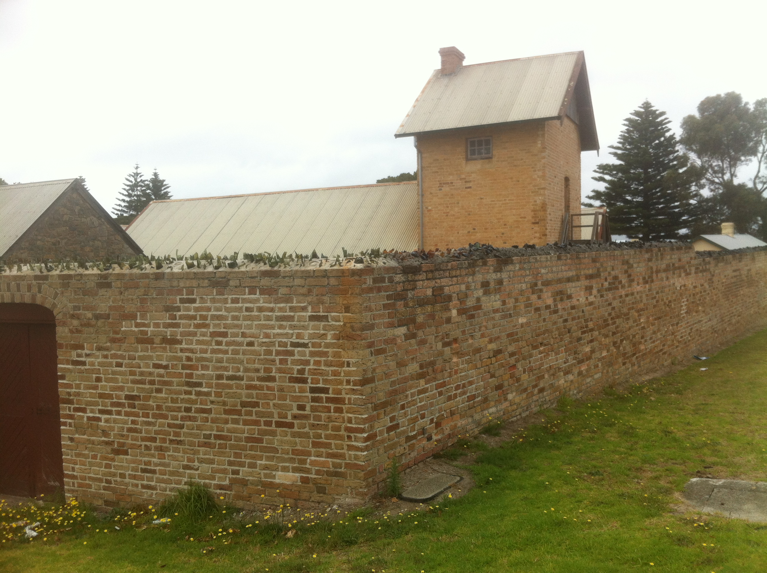 Albany Convict Gaol, north west corner